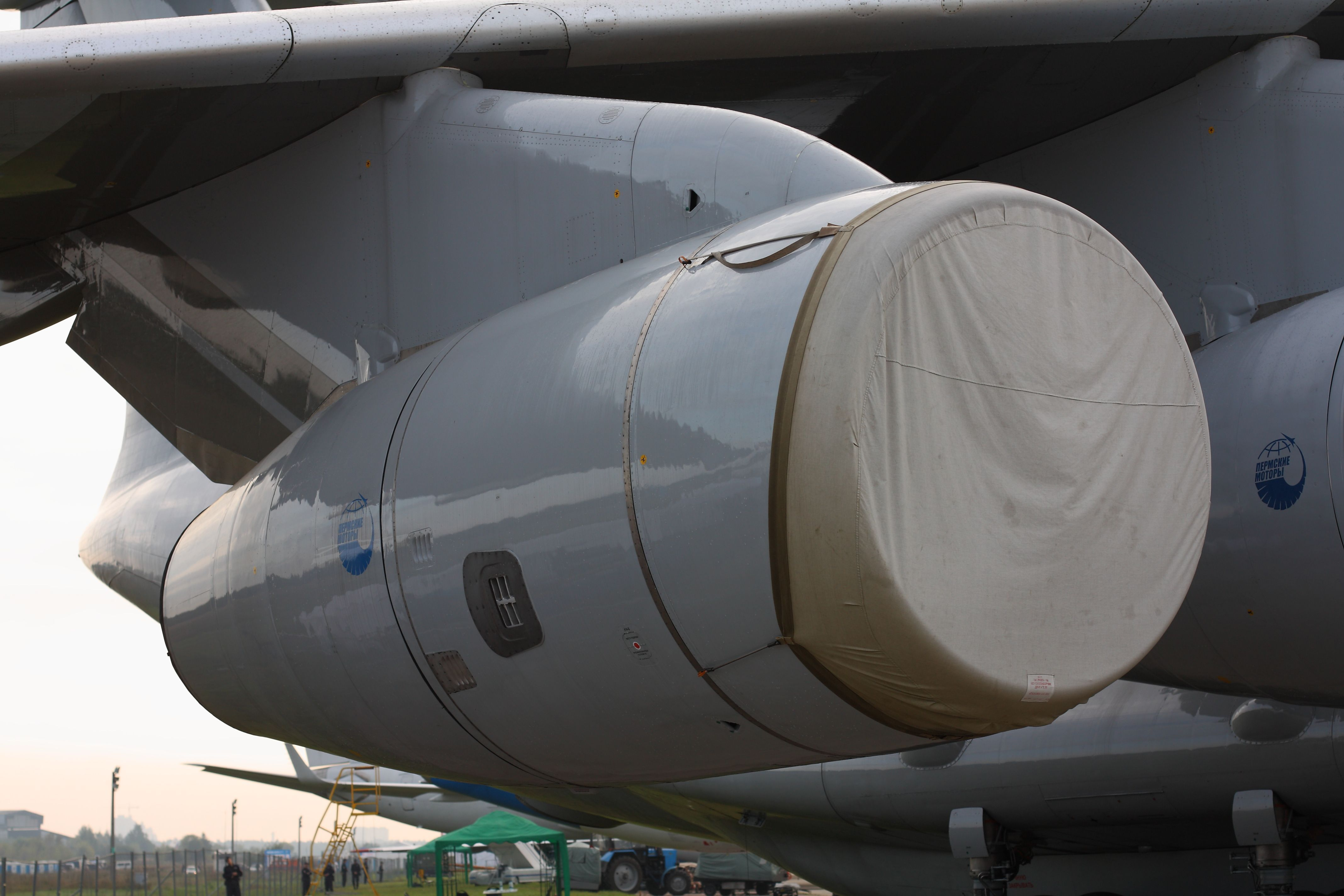 Ilyushin Il-76MD-90A (The international aerospace salon MAKS-2013)